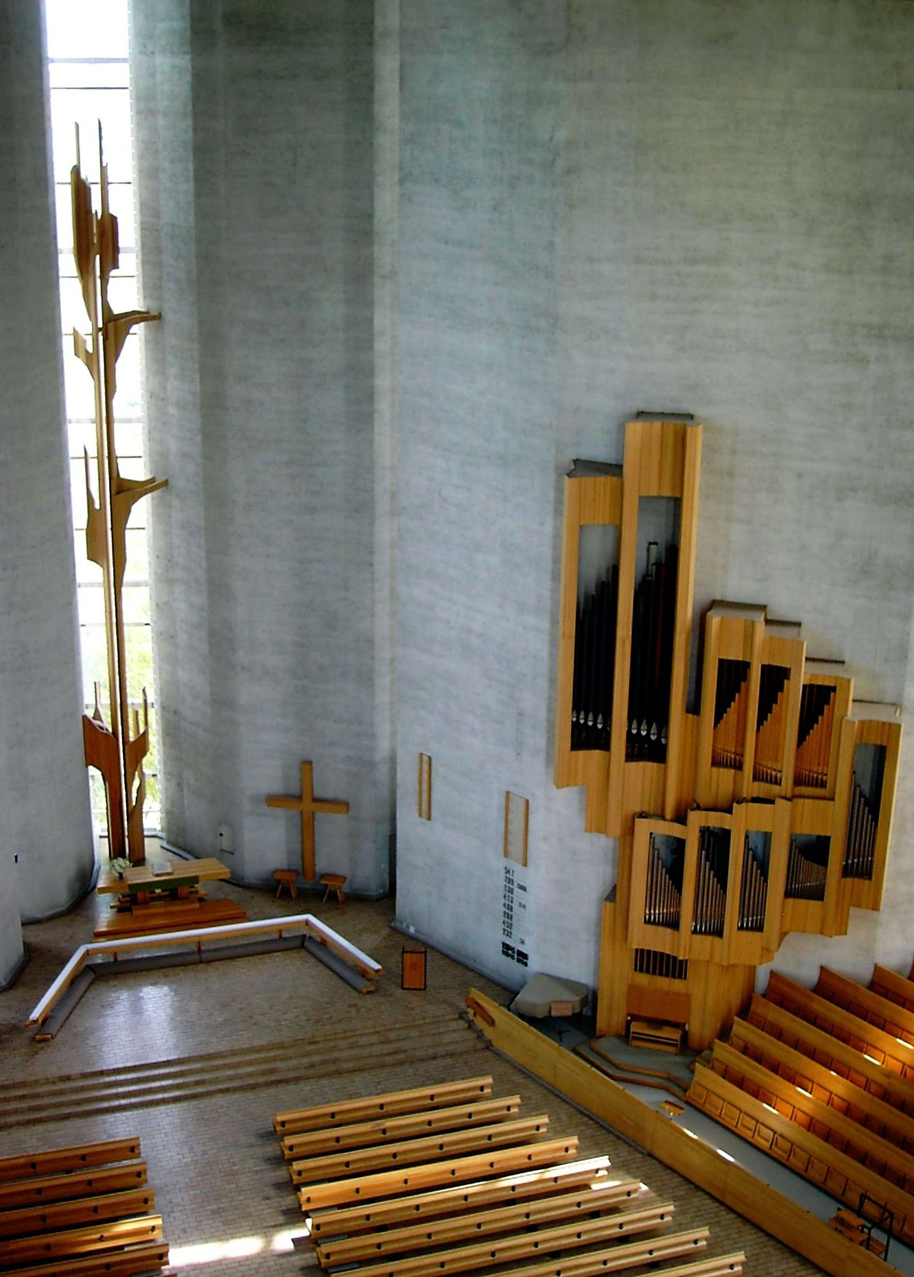 Interior of Kaleva Church in Tampere, Finland. View to the altar and organs. Picture taken from the bell tower hatch opening to the interiour of the church. Includes the altar sculpture Särkynyt ruoko (Broken reed) and the second largest organs in Finland.